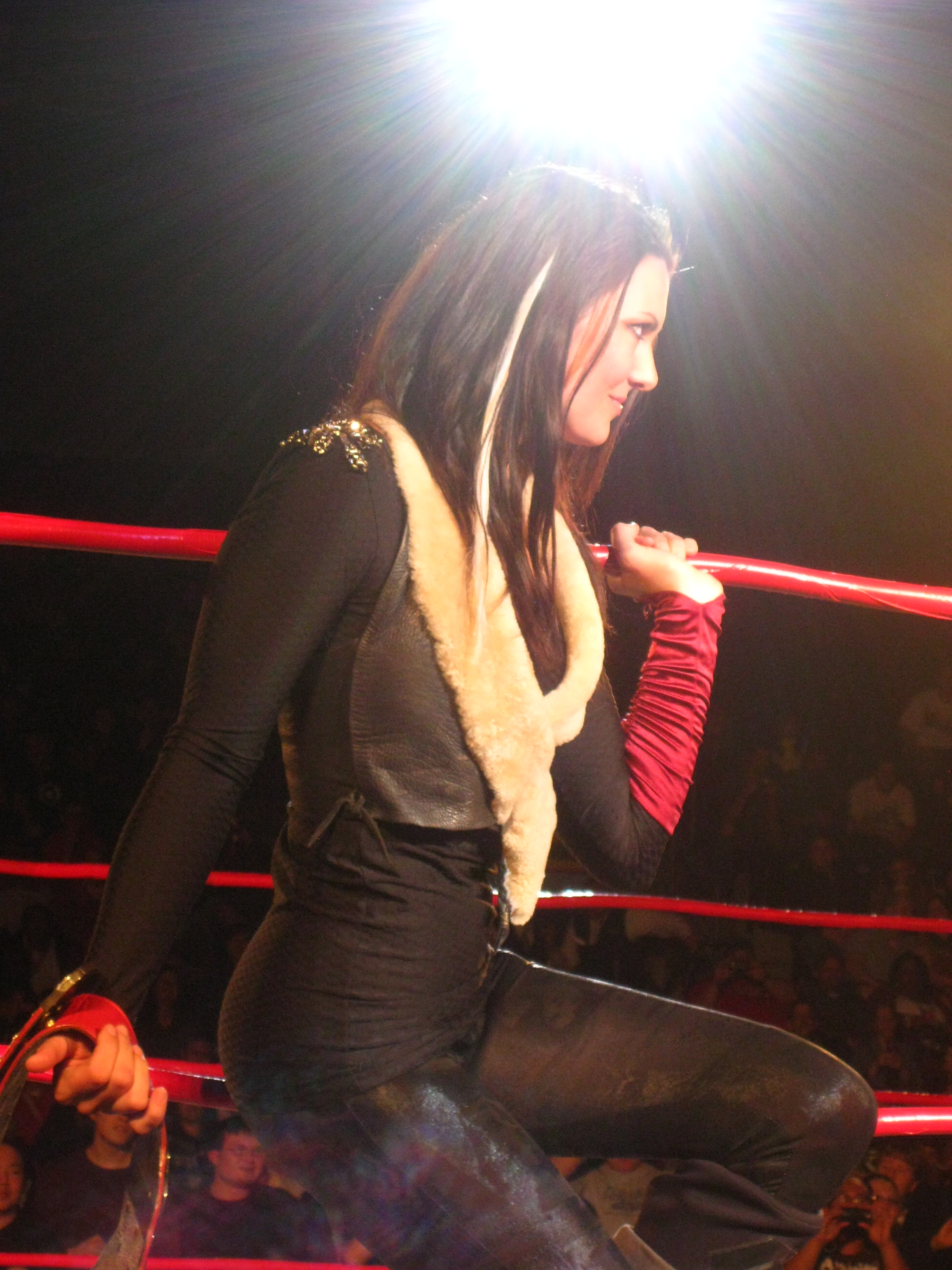 Katarina Waters during an TNA Live event on March 2011